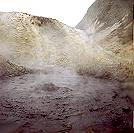 bubbling sulfur spring in caldera on st. lucia I took this snapshot on 28 December 1977 and scanned it into digital form on 2 September 2002. K. Kay Shearin